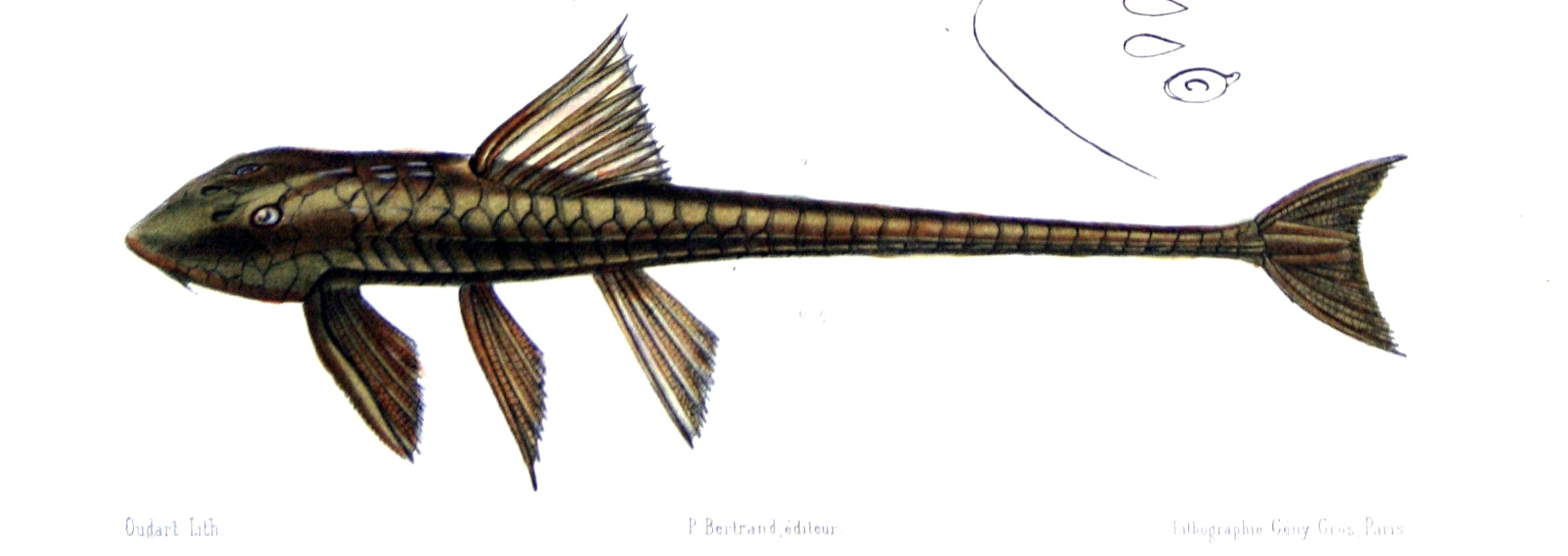 From top to bottom: Loricaria carinata = Loricaria cataphracta + head from above